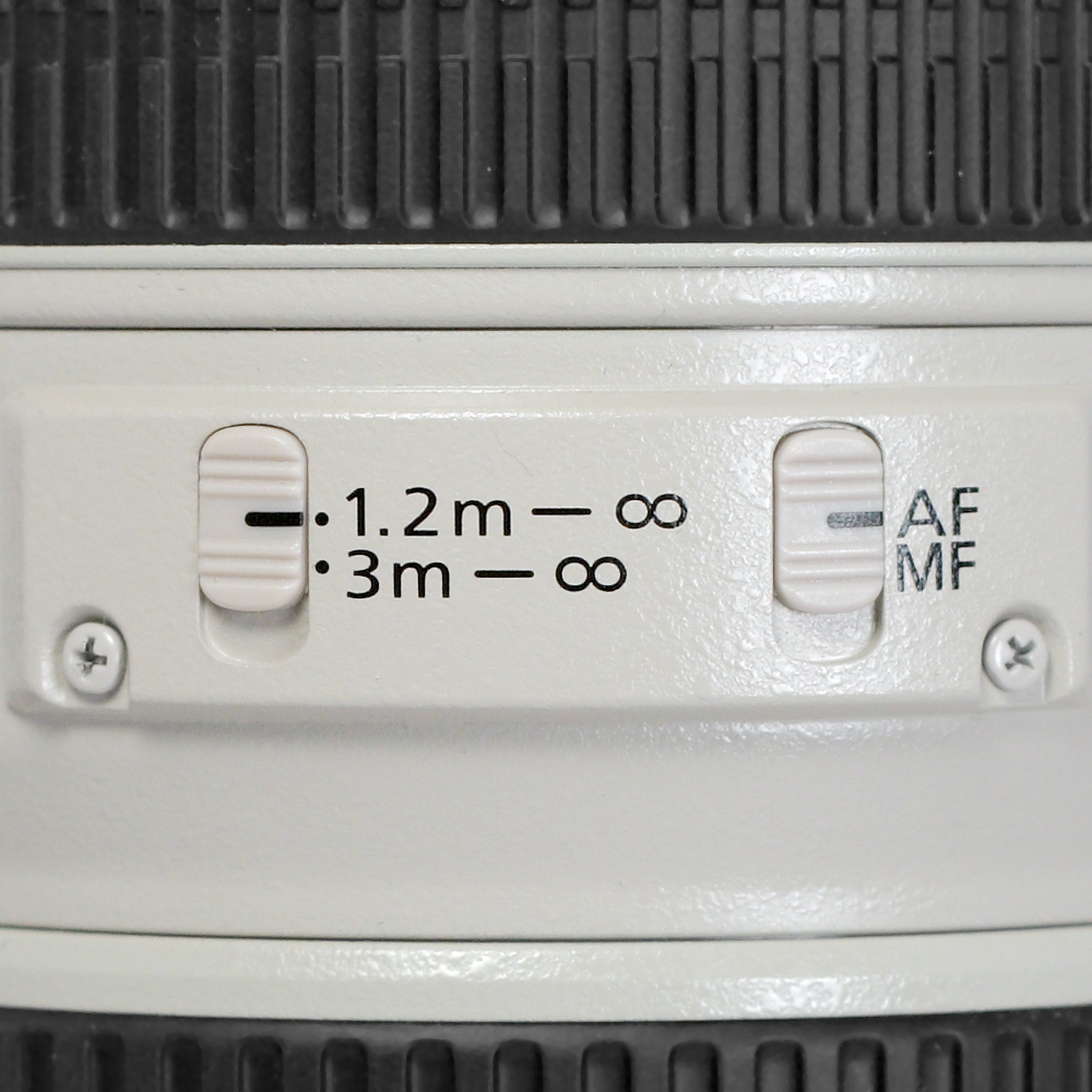 Focusing distance range limiter switch, and Focus mode switch, of a Canon EF lens. Lens that was used as subject, is the Canon EF 70-200mm f/4L USM.